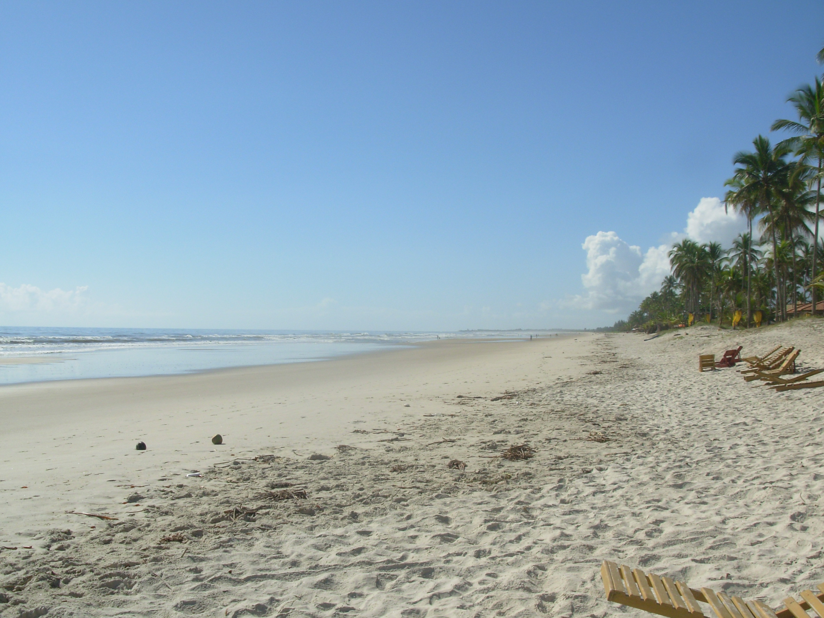 Costa Beach in Canavieiras, Bahia, Brazil